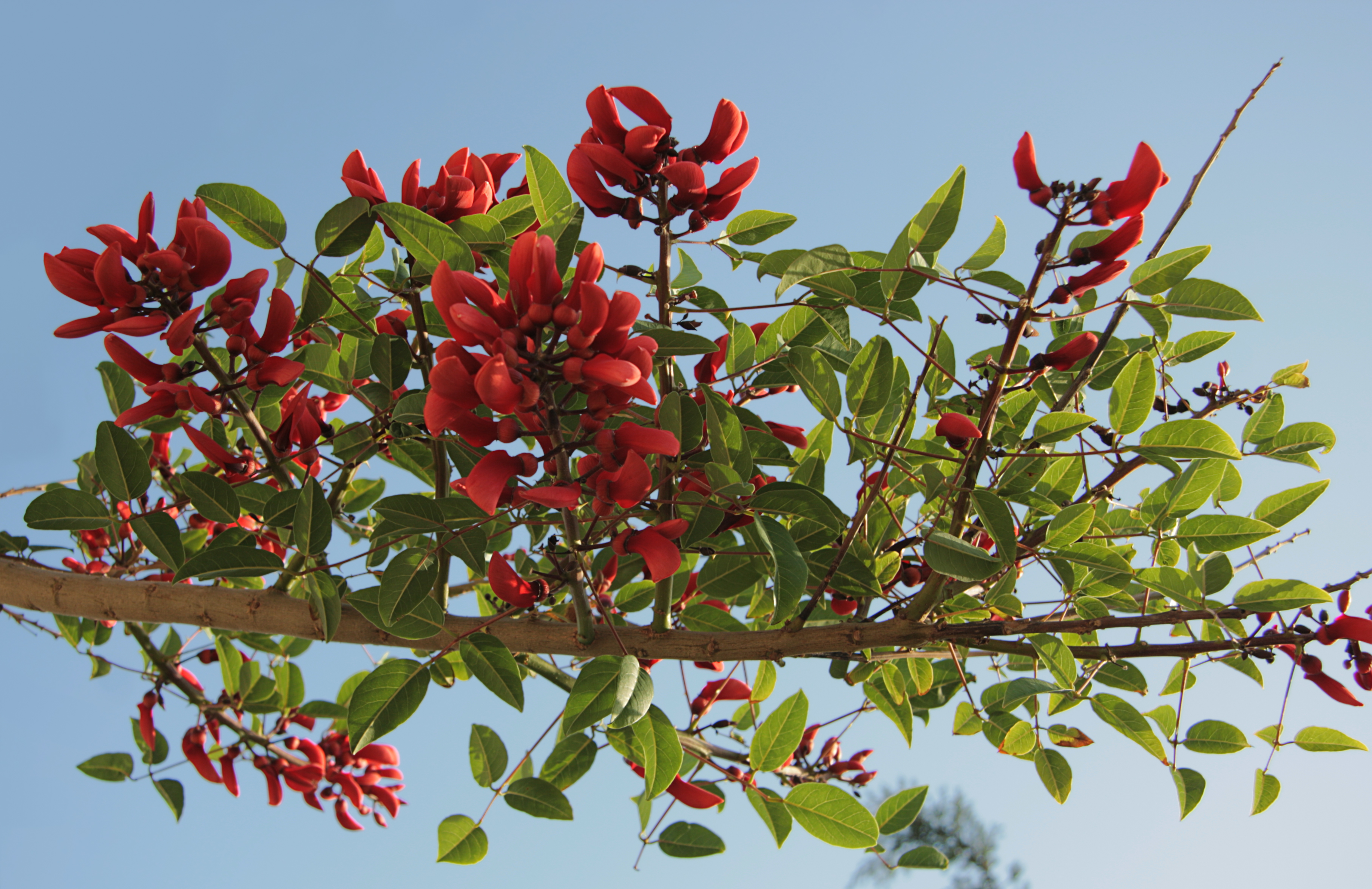 Flowers of Cyprus